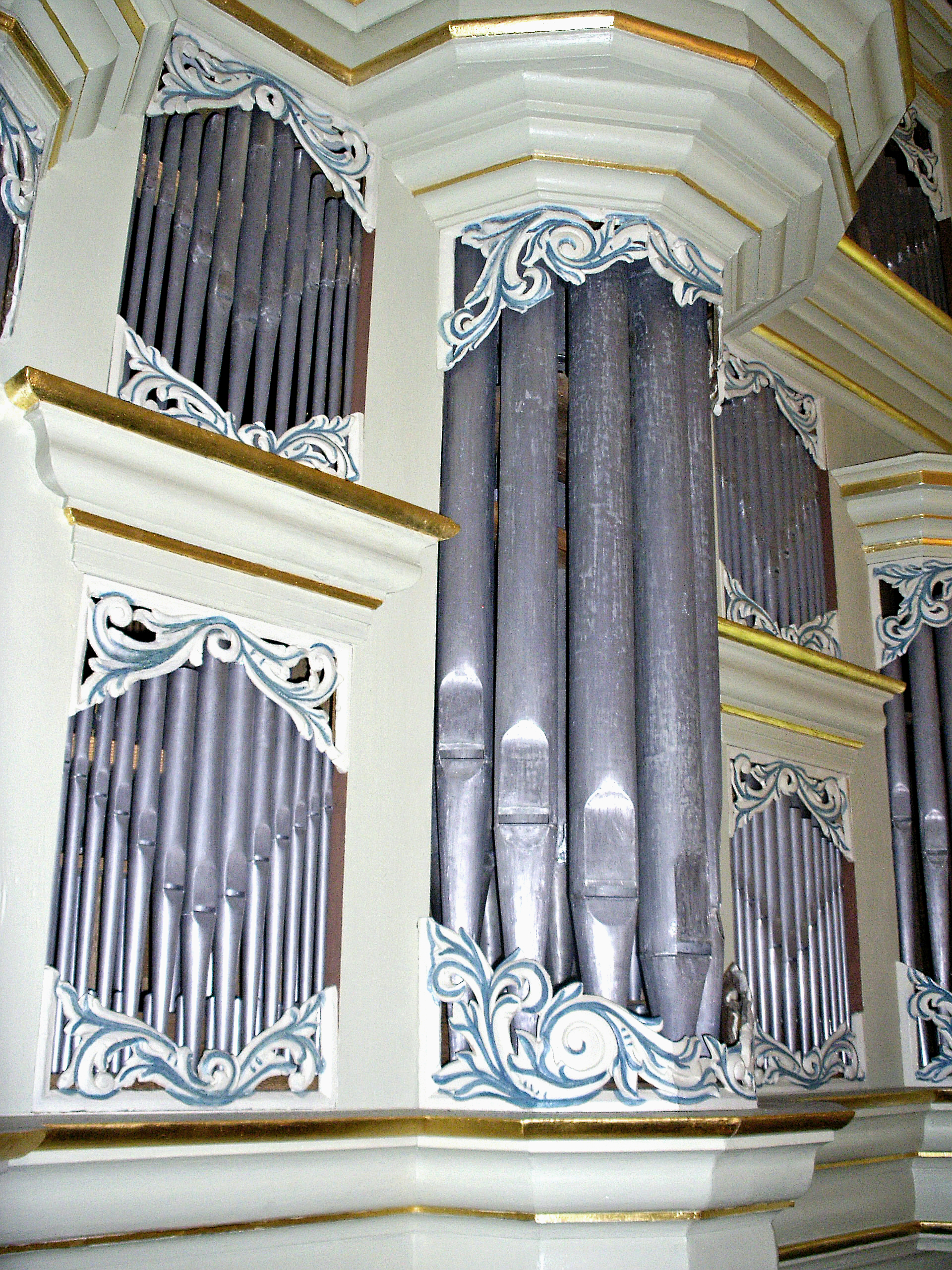 Schnitger organ Mittelnkirchen, Brustwerk